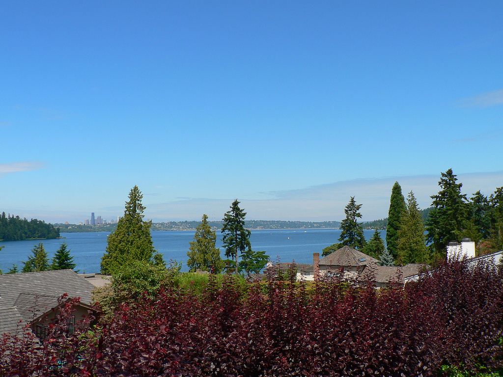 Summer in Seattle really is gorgeous